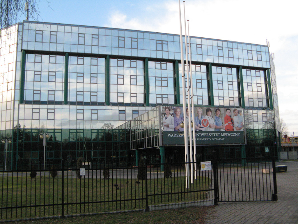 Medical University of Warsaw, Poland